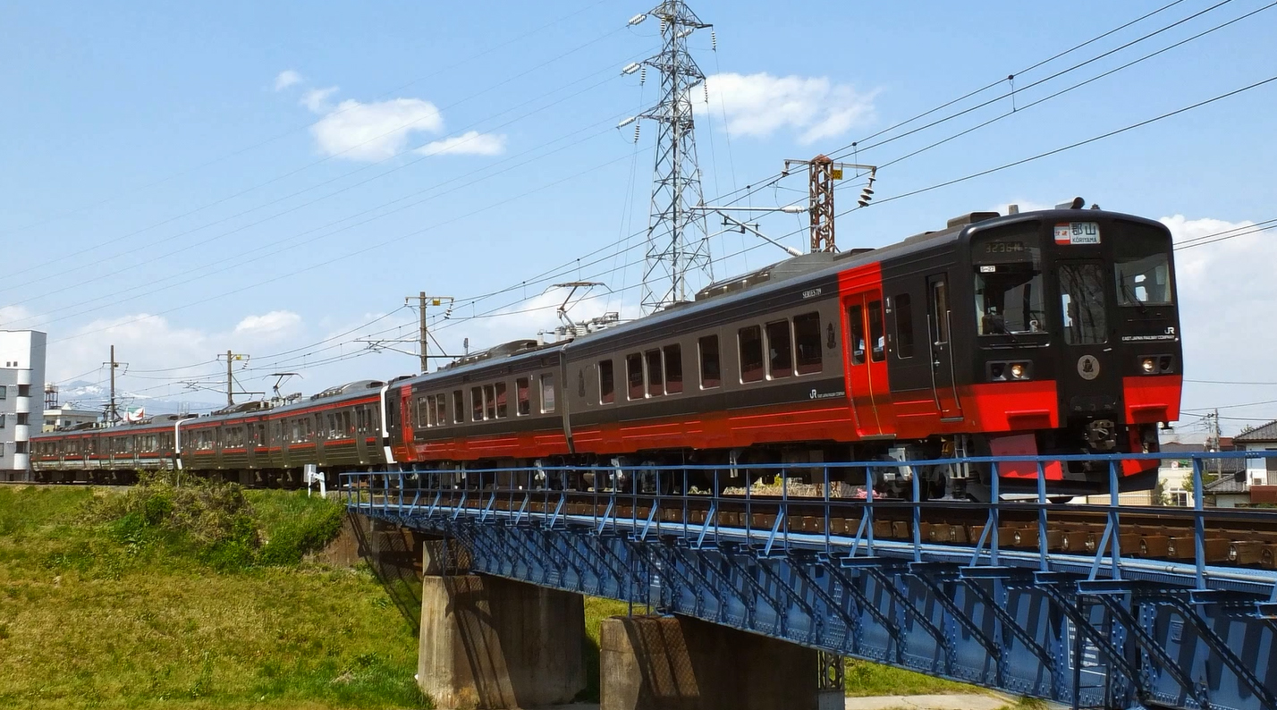 JR East 719-700 series EMU set S-27 on the Banetsu West Line on a special "FruiTea Fukushima" service